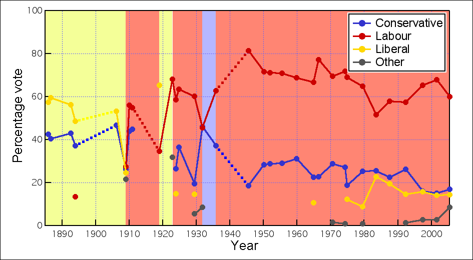 Election results for Sheffield Attercliffe constituency, 1885–2005. © Jeremy Atherton 2005.